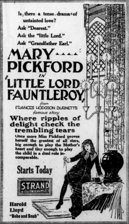 Newspaper advertisement for the American film Little Lord Fauntleroy (1921) with Mary Pickford, on page 11 of the May 6, 1922 Duluth Herald.